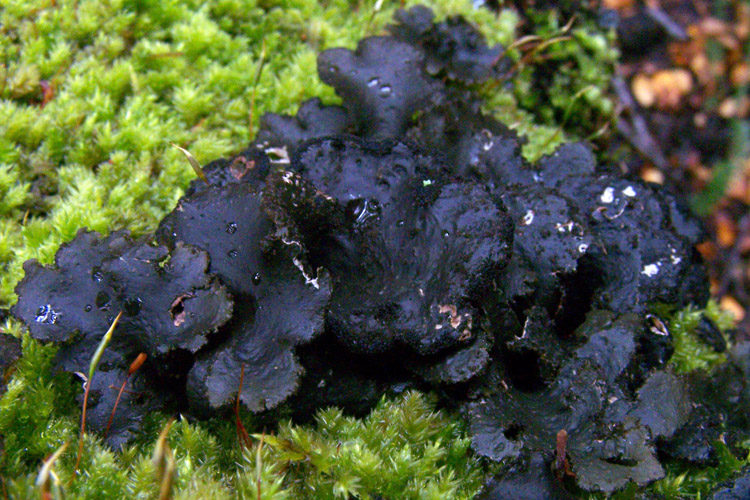 Sticta hypochra growing in Parque Etnobotanico Omora on Isla Navarino, Chile.